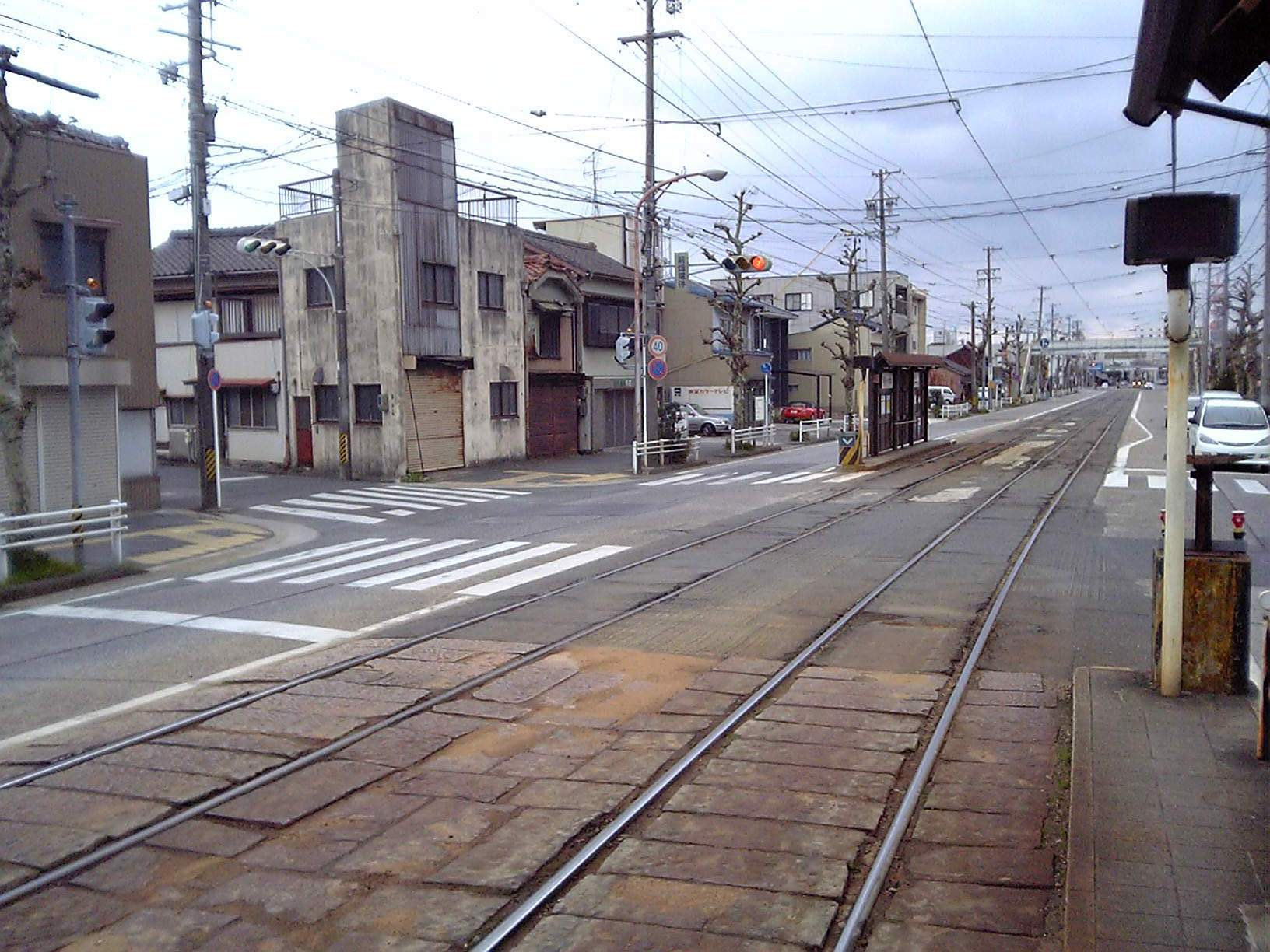 Toyohashi Railroad Maehata Station, view towards Ekimae